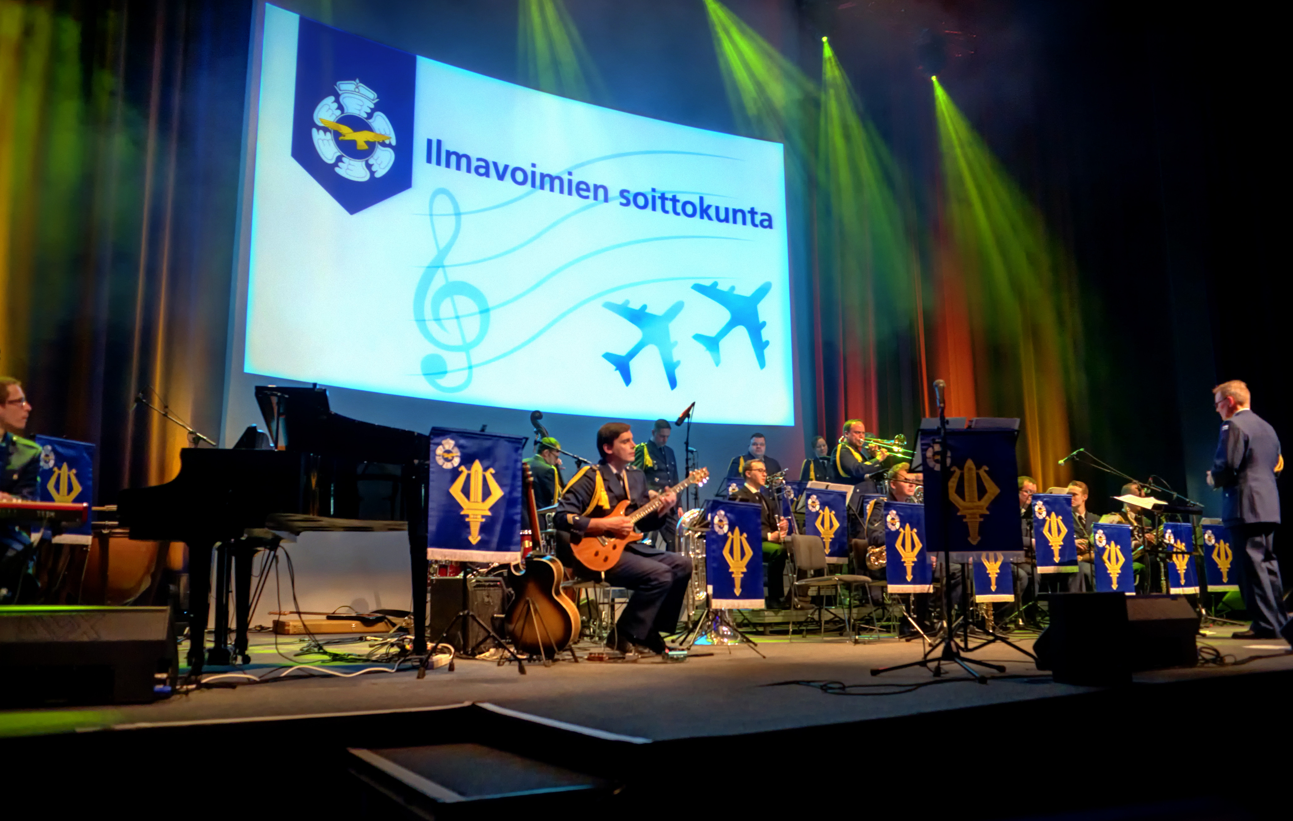 The Air Force Big Band in Jyväskylä, Finland